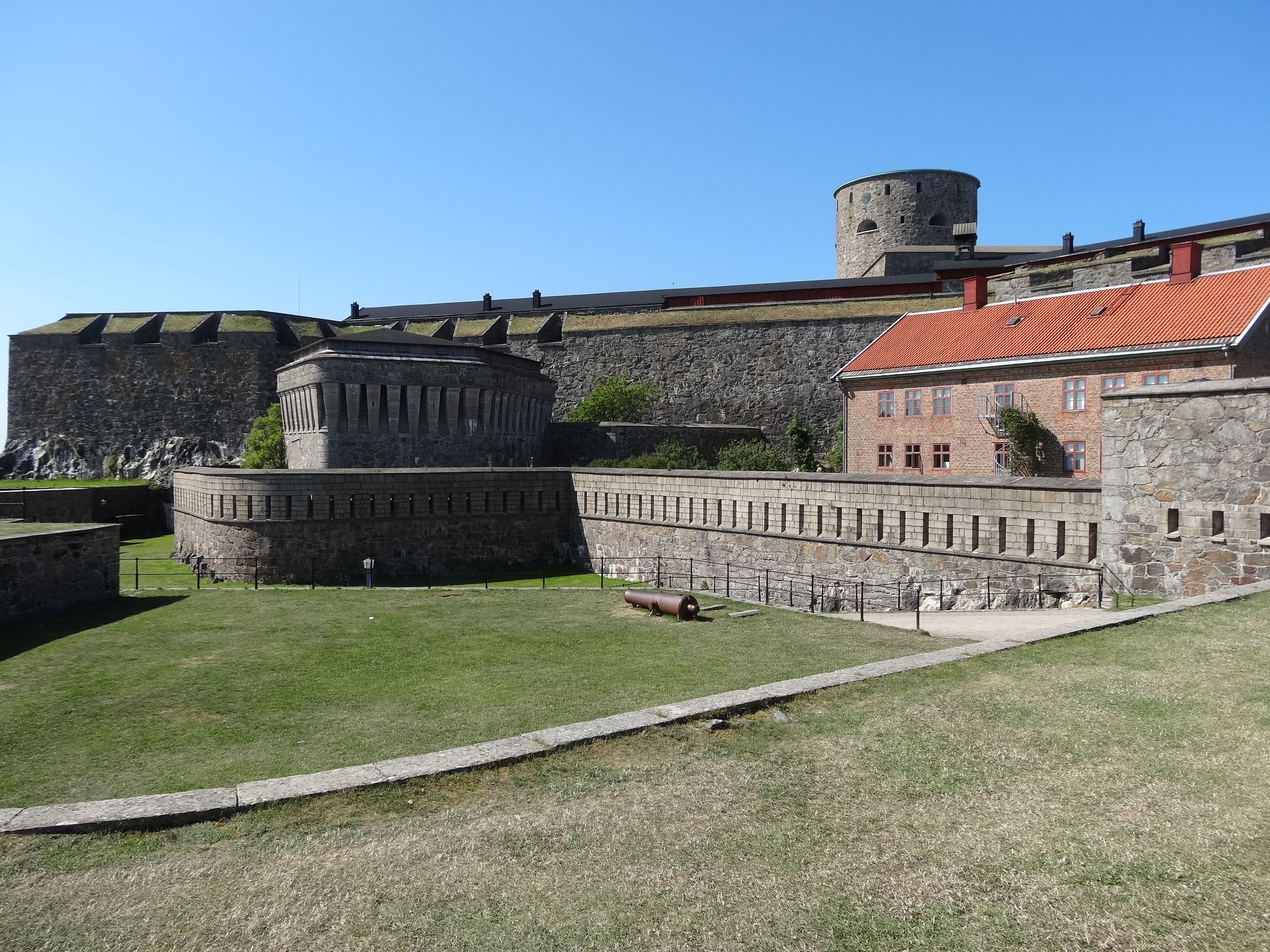 Karlsten fortress view from east.